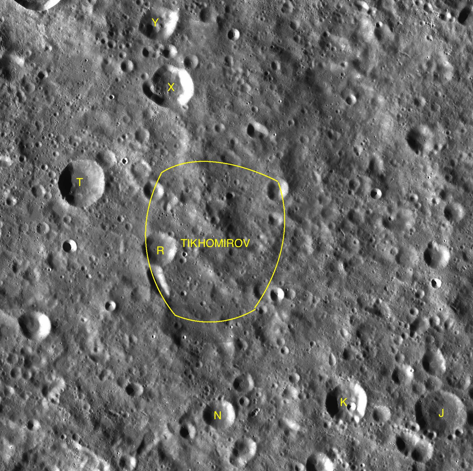 Part of the chart LAC-49 used for the presentation